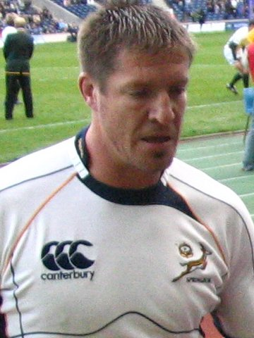 South African rugby union player Bakkies Botha at Murrayfield, Edinburgh